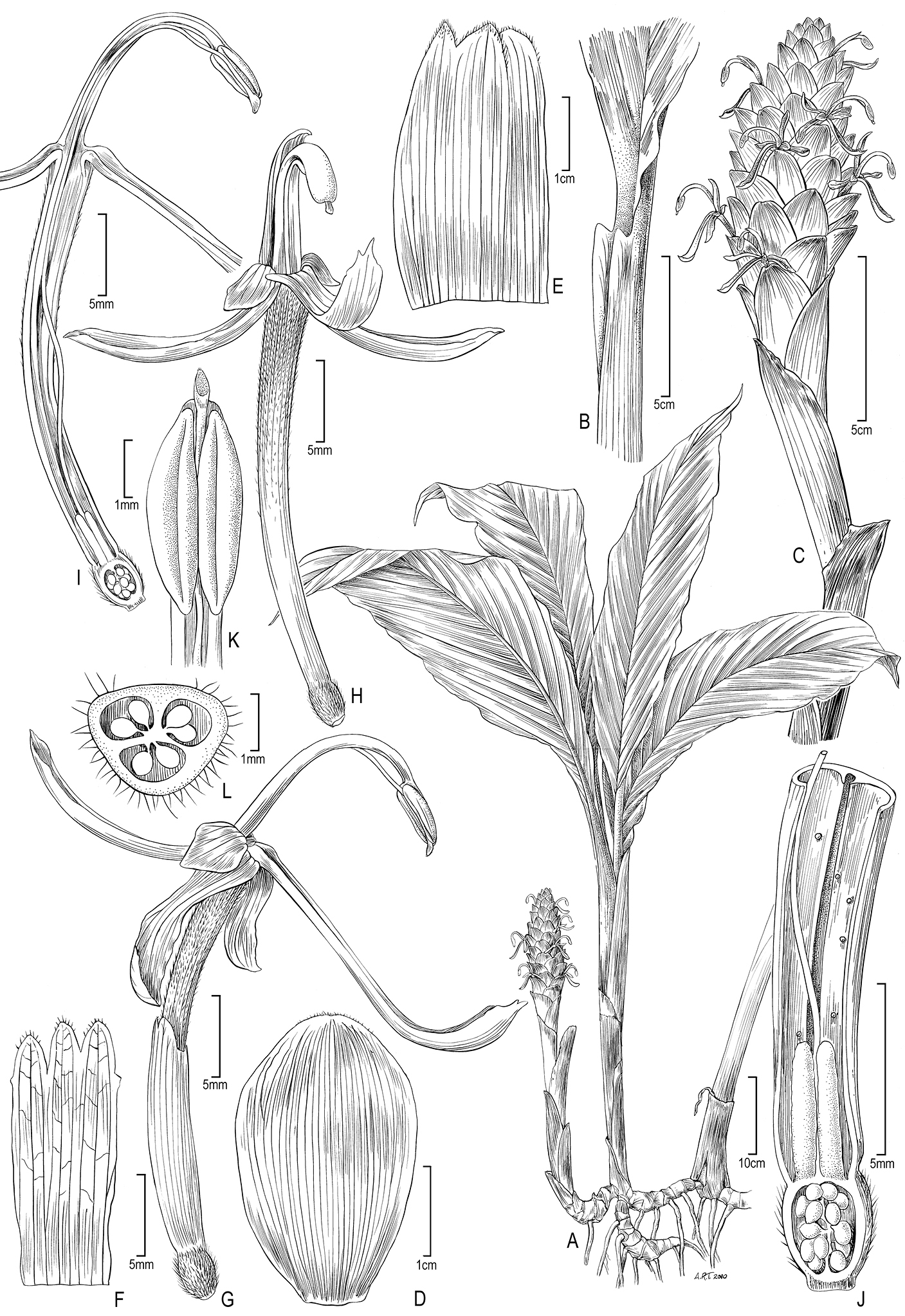 Larsenianthus wardianus W. J. Kress, Thet Htun & Bordelon. A overall habit B leaf base with petiole and ligule C inflorescence D inflorescence bract E bracteole F calyx, spread open G flower, lateral view H flower, front view I flower, semi-lateral view with corolla tube cut away to show epigynous nectaries and style J base of flower, cut-way view to show style, and ovary K anther with slightly protruding stigma L ovary, transverse section. Line drawing by Alice Tangerini from plants in cultivation; Botany Research Greenhouse Accession #02-7054 and US National Herbarium voucher W. J. Kress 10-8750.